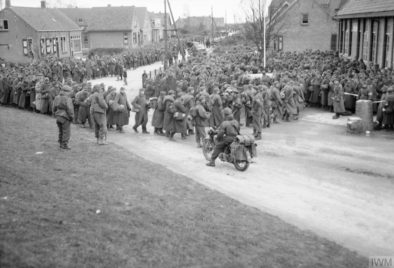 German Prisoners on Walcheren A general view of the scene as German prisoners were marched off on Walcheren.